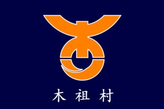 Flag of Kiso-village Nagano